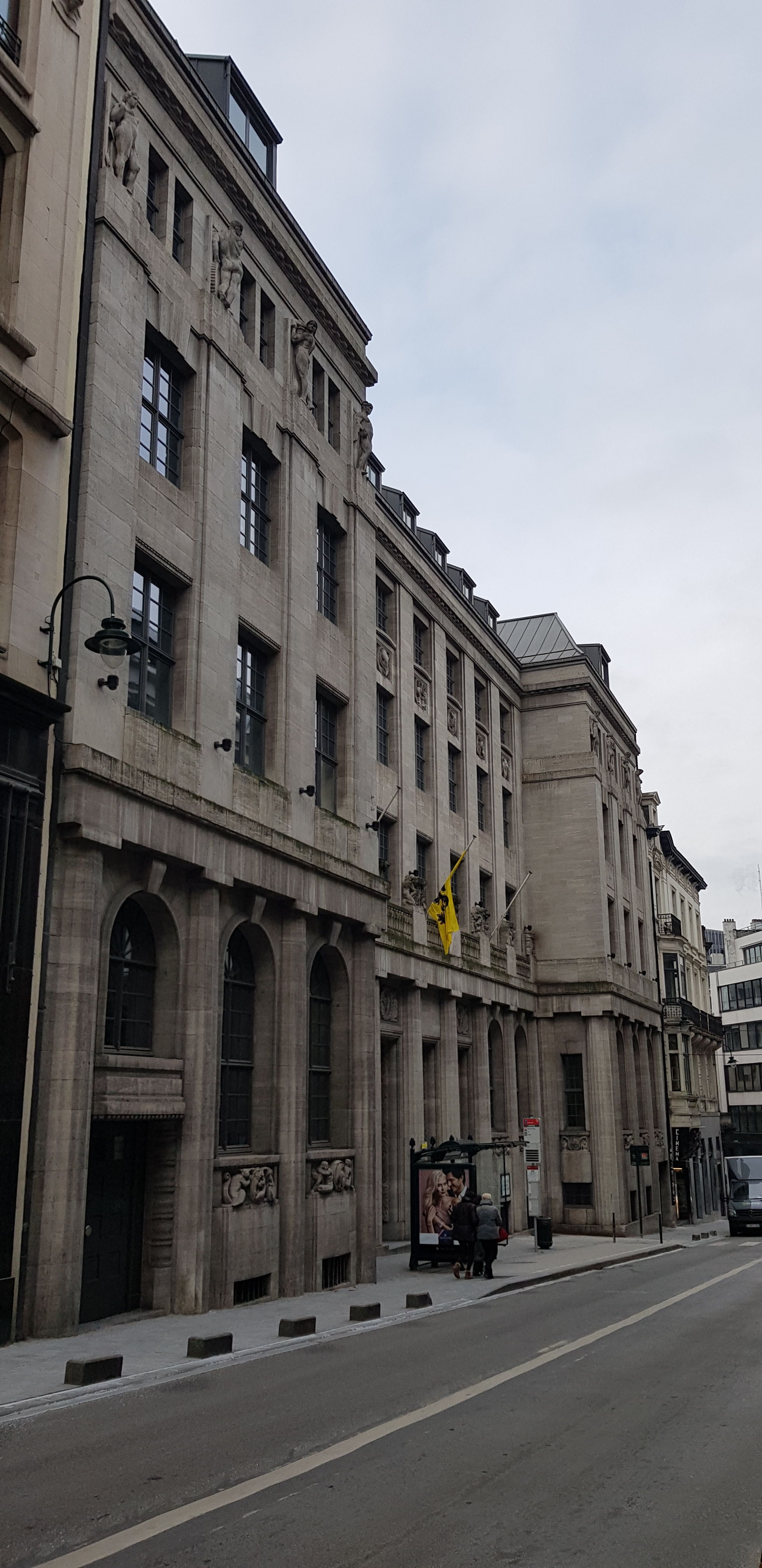 Arenberggebouw, Brussels, Belgium